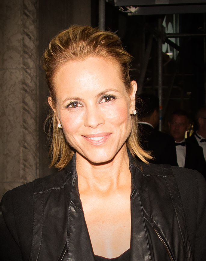 Maria Bello at the 2013 Toronto International Film Festival.